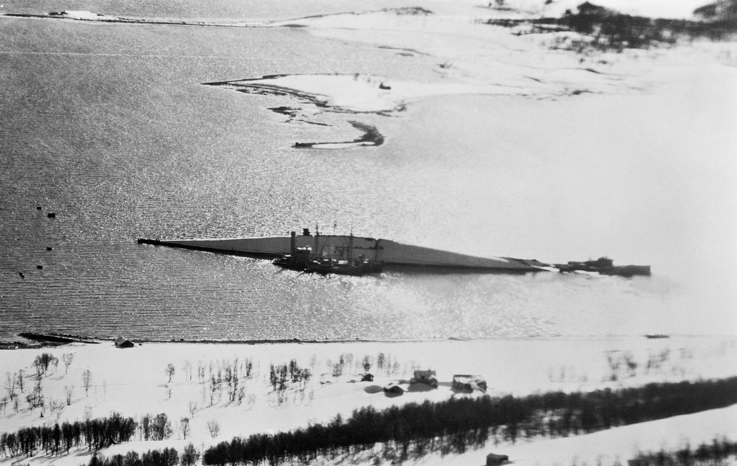 Low-level oblique photographic-reconnaissance aerial taken from De Havilland Mosquito PR Mark XVI (NS637) of No. 544 Squadron RAF, showing the capsized German battleship Tirpitz, lying in the Tromsø fjord near isle of Håkøya, attended by salvage vessels. The already damaged ship was finally sunk in a combined daylight attack by Nos. 9 and 617 Squadrons RAF on 12 November 1944 (Operation Catechism).